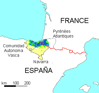 Localization of the Basque language, in Spain (Comunidad Autónoma Vasca and Navarra) and France. The local specification for Spain was taken from Image:Navarra+Euskadi - Mapa densidad euskera 2001.svg, for France from a plausible French map found in [1]